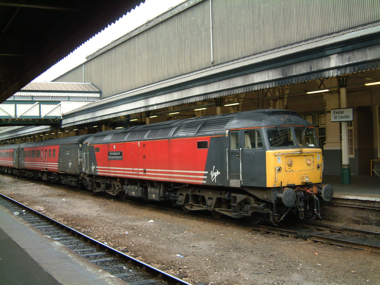 Class 47 diesel locomotive 47817 The Institution of Mechanical Engineers on a Virgin Cross-Country service at Exeter St Davids railway station. This locomotive has since been rebuilt into Virgin Thunderbird Class 57/3 No. 57311 Parker